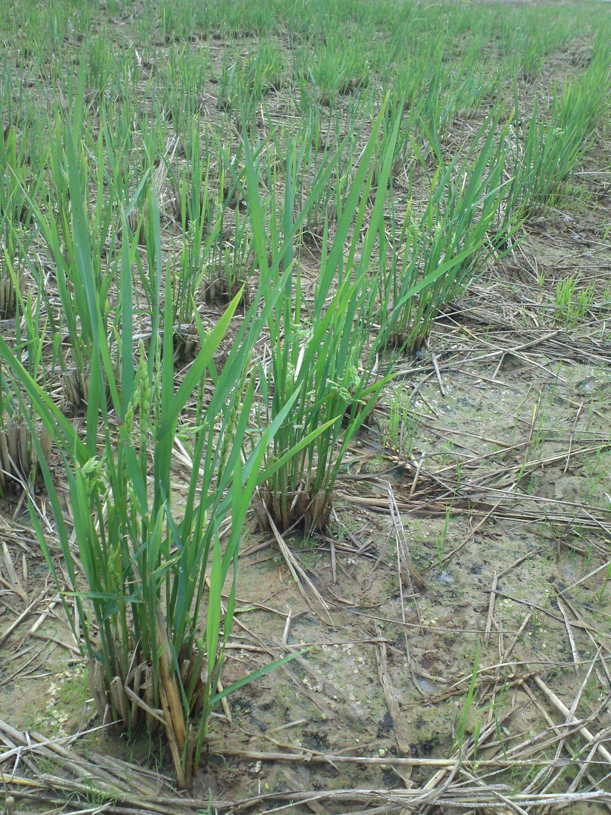 Basal shoot. It develops after reaping.